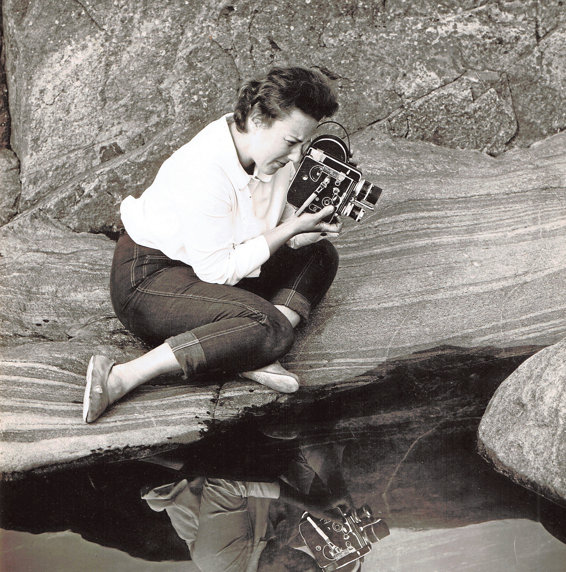 Photograph of the Finnish photographer Claire Aho (1925–2015) in Tvärminne, Finland.